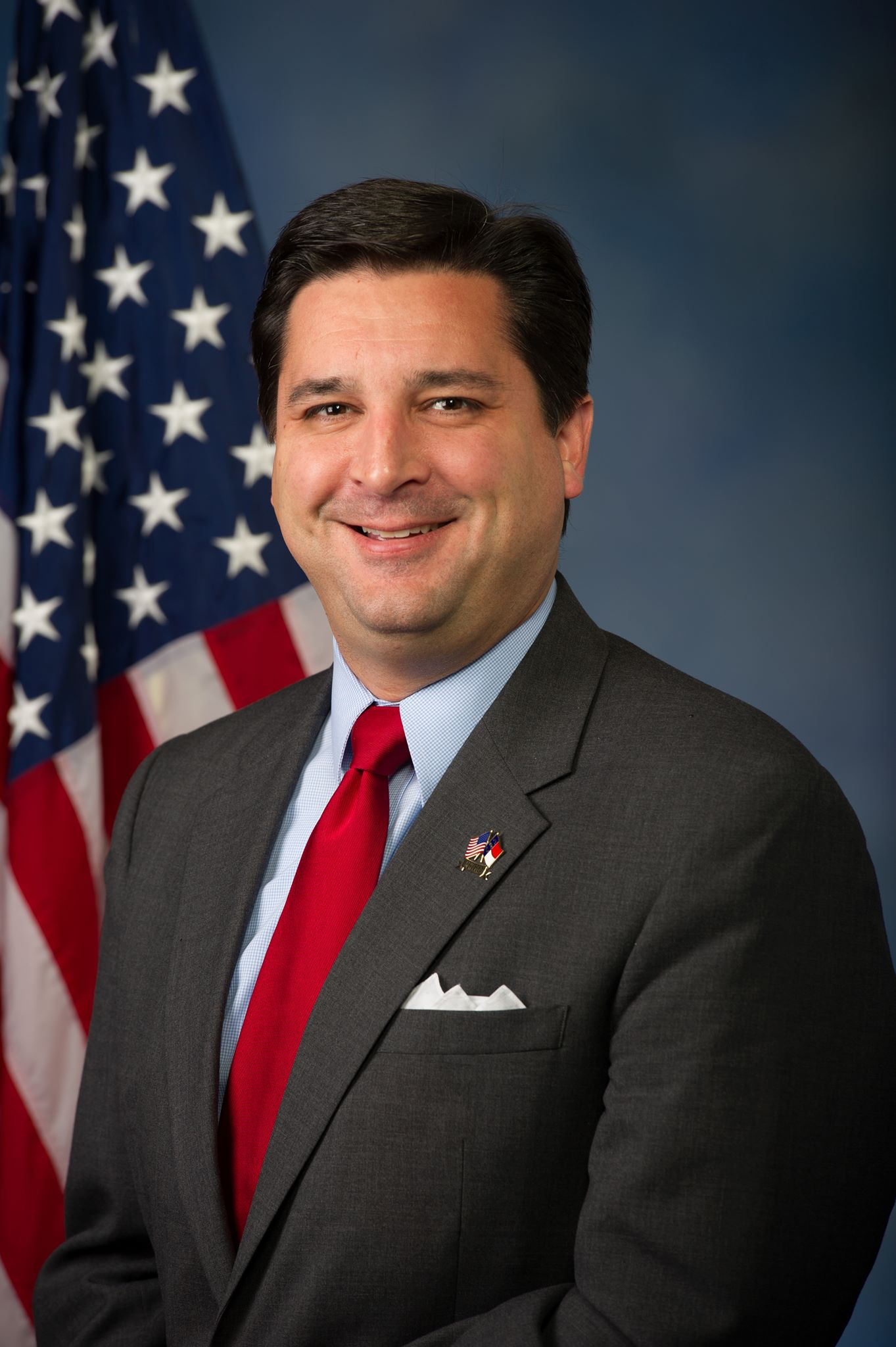 David Rouzer official photo, 114th Congress